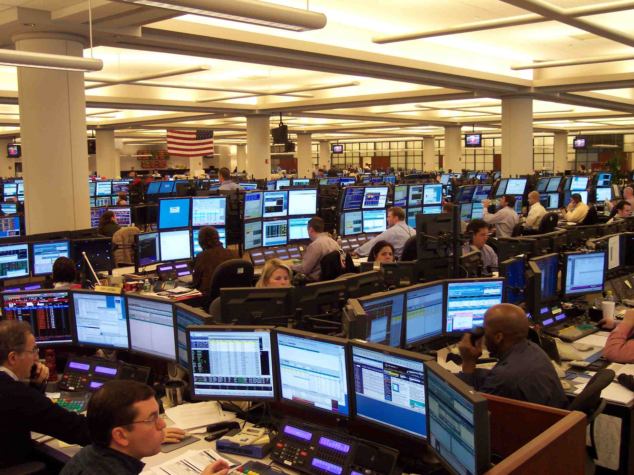 US Energy Markets is a US multinational owned by Energy Management Services thus part of a global energy and finance corporation that develops produces and markets refined Oil top two demanded fuels Diesel and Jet Fuel in the ten billion daily charts worldwide. Since 2004 has purchased and merged with both fuel management companies and oil storage facilities through out the US. Growth plans for 2010 include a 24 hour a day physical oil trading platform to better suit the needs of Asian and European Energy Markets. This platform working along side the Platts system will allow all Oil Refineries globally to produce.